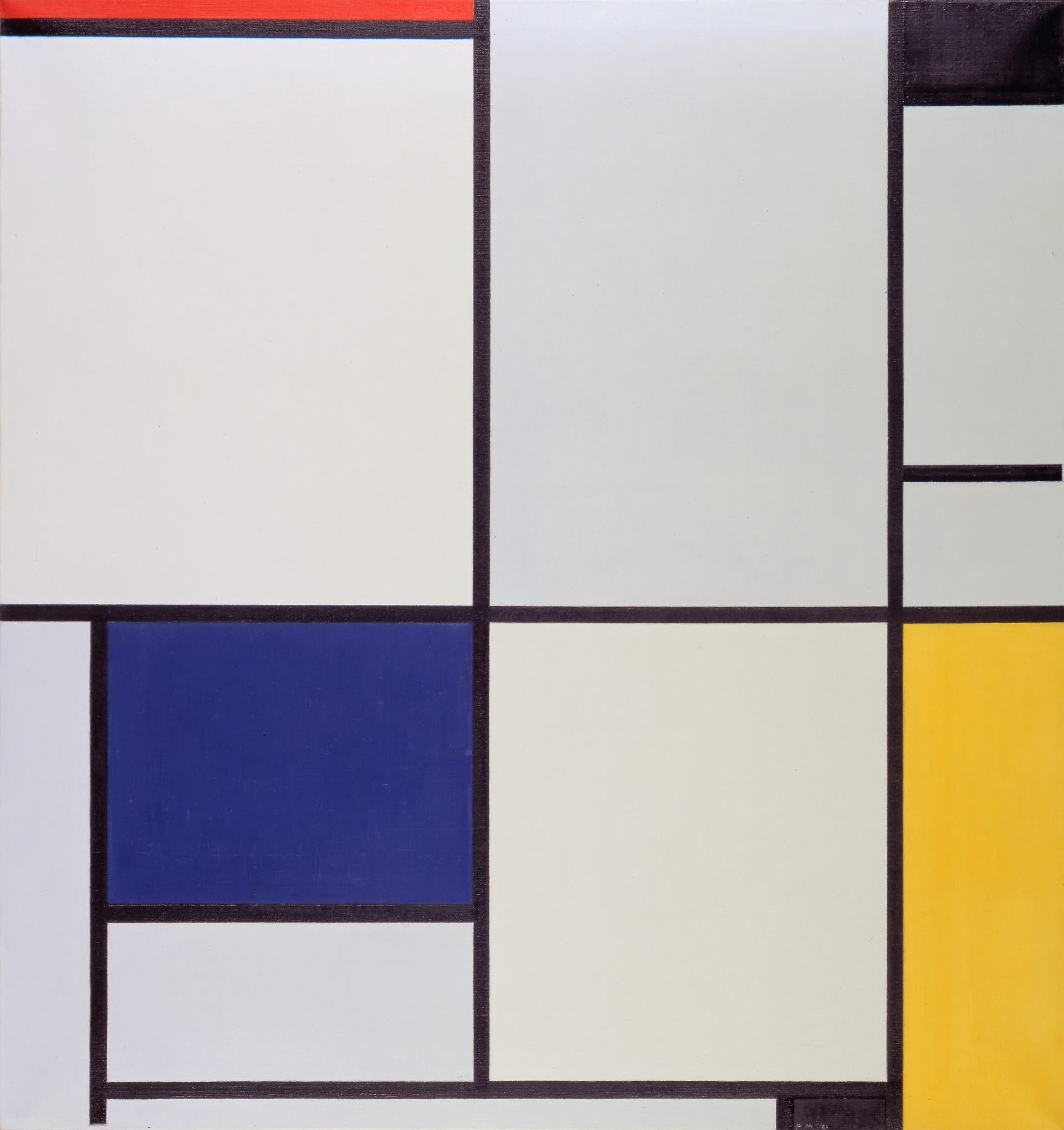 Tableau I oil on canvas 103 x 100 cm signed b.r.: P M 21